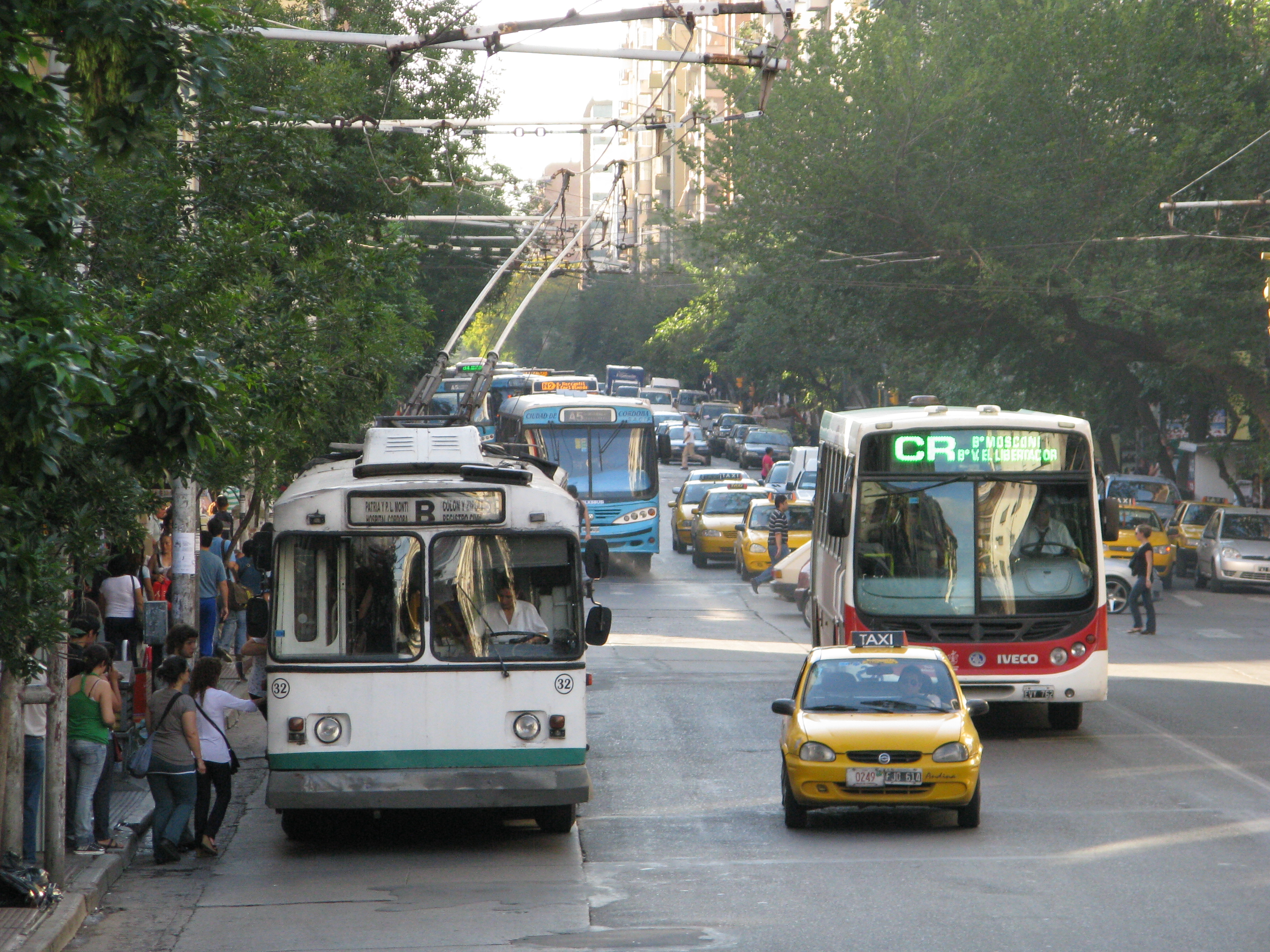 Downtown avenue at rush hour. Cordoba, Argentina. Unknown trolleybus (#32) on line B and Metalpar bus (reg. EVY 762) with Iveco chassis on line CR.